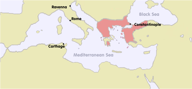 This map was created using detailed checking of the dates when various Anatolian towns fell to Turkish rule. Based on this information, the frontiers of the Byzantine Empire have been amended to be more historically accurate and precise. Other information This file is based on File:Byzantium1270.png, which was itself based on an original made by me many years ago.